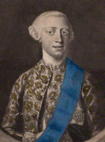 Edward Augustus, Duke of York and Albany